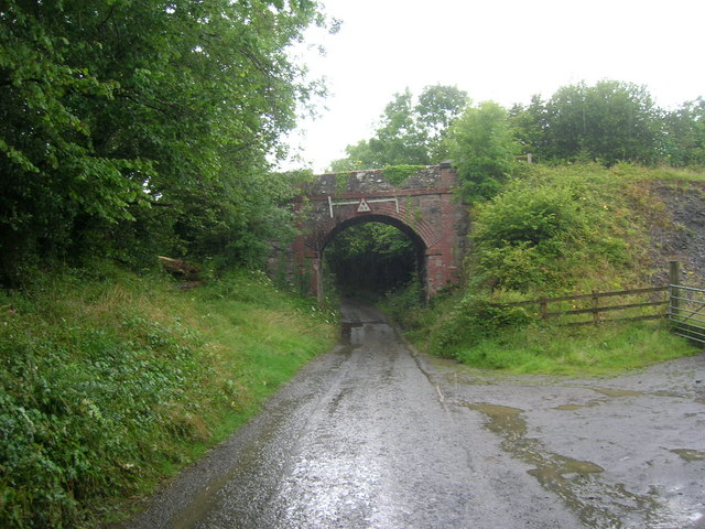 Trequite railway bridge The line has been dismantled.